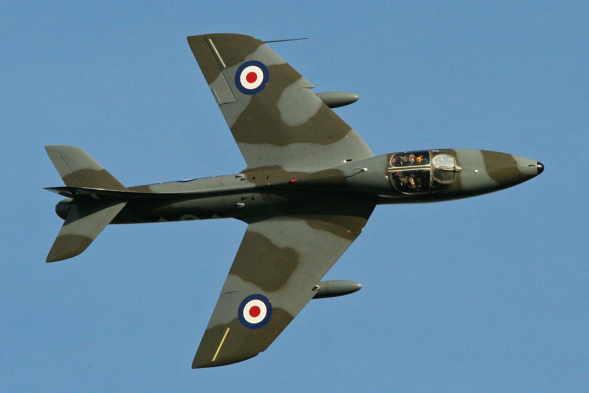 This twin-stick Hunter is beautifully presented in the markings of 2 sqn RAF. She is based at North Weald and operated by Cranfield Hunter Ltd. c/n 41H-670815. Seen displaying at Old Warden during the 2013 Autumn Airshow. 06-10-2013